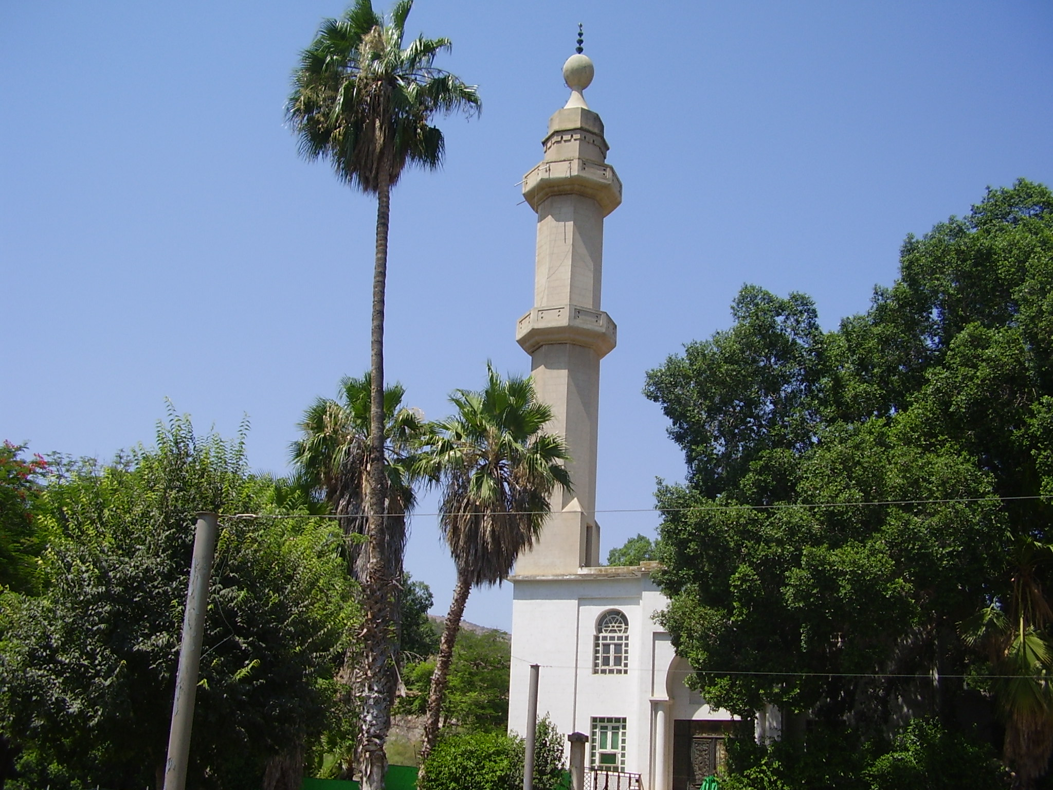 Hamat Gader mosque